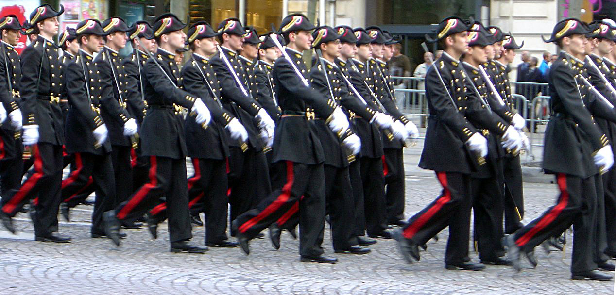 students from the École Polytechnique, near Paris, France, in full dress uniform taken during May 8, 2005 celebrations on the Champs-Élysées, Paris